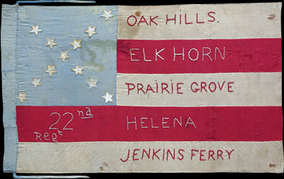 Flag, Confederate - 22nd/35th Regiment Arkansas Volunteer Infantry, Old State House Museum Collections. Note: A variation on the Stainless Banner, attributed to the King's 22nd/20th Regiment Arkansas Infantry. Questions exist regarding whether the flag dates from the war period or was a post war flag created for a reunion.